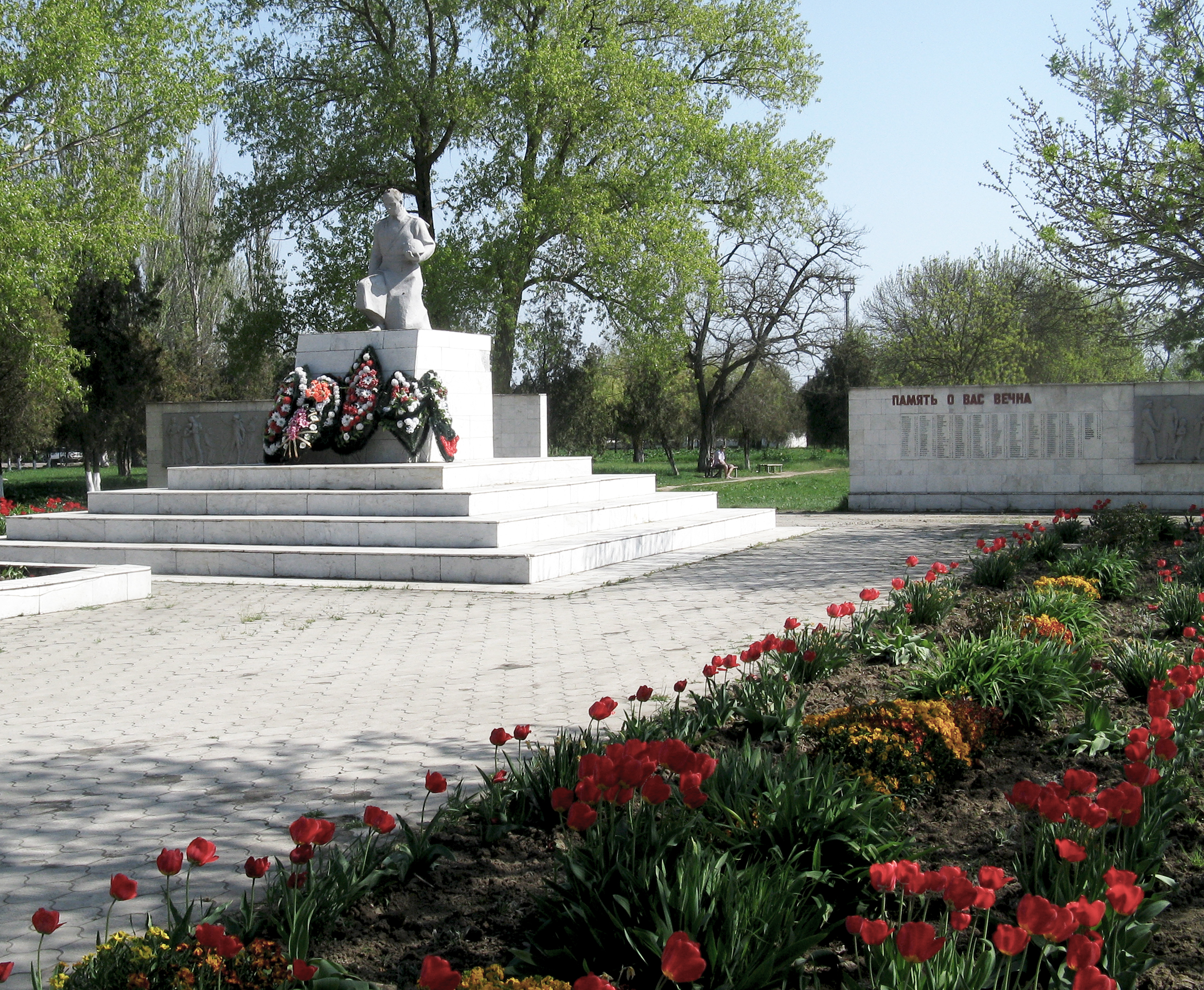 The memorial devoted to victims of World War II. (stanitsa Vyshesteblievskaya in (Temryuksky District (Russia)).